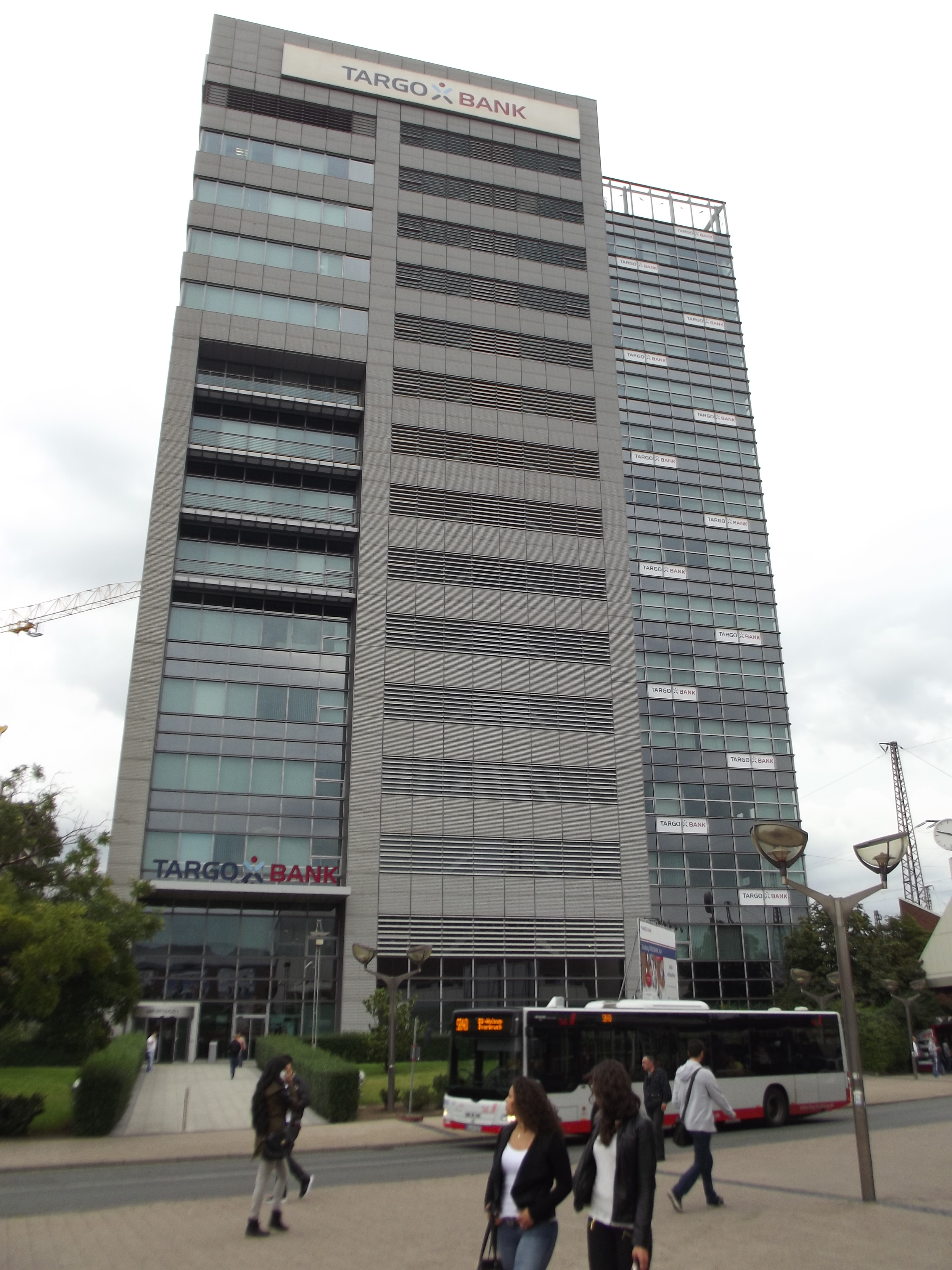 Officebuilding Targobank (subsidiary of Citibank) in Duisburg in autumn.